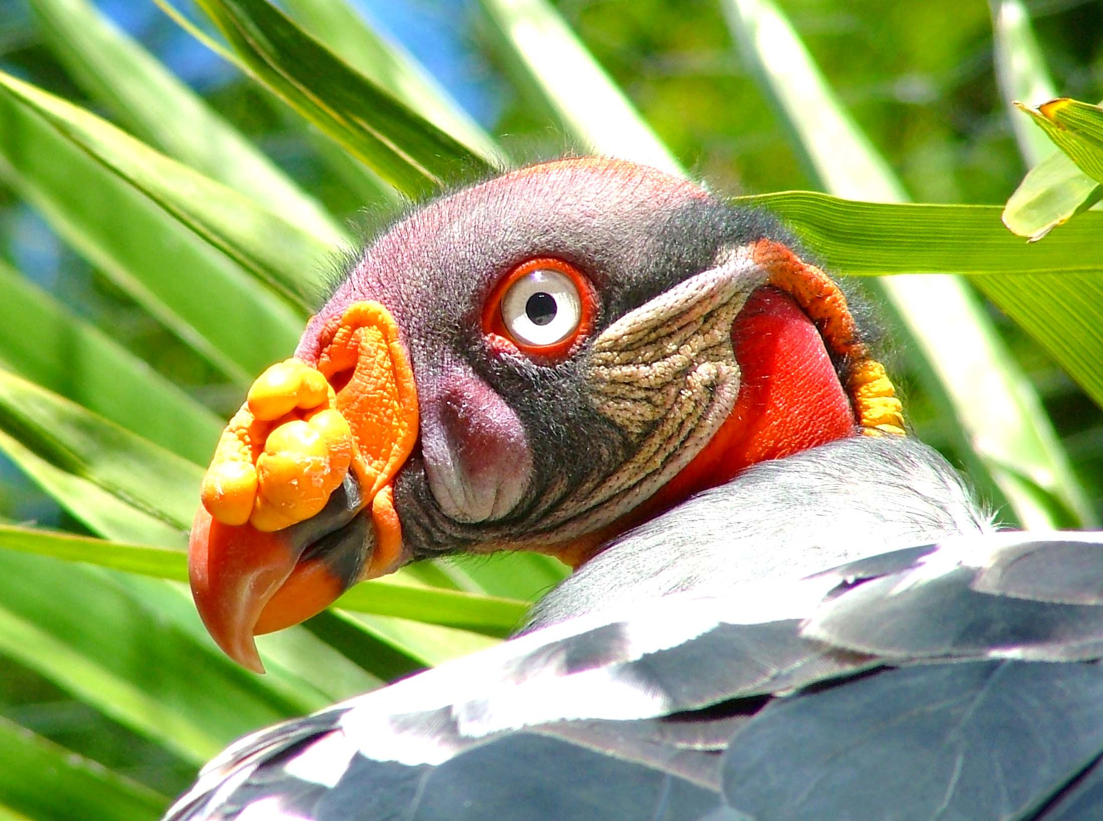 King Vulture (Sarcoramphus papa) at Colchester Zoo, Colchester, Essex, England